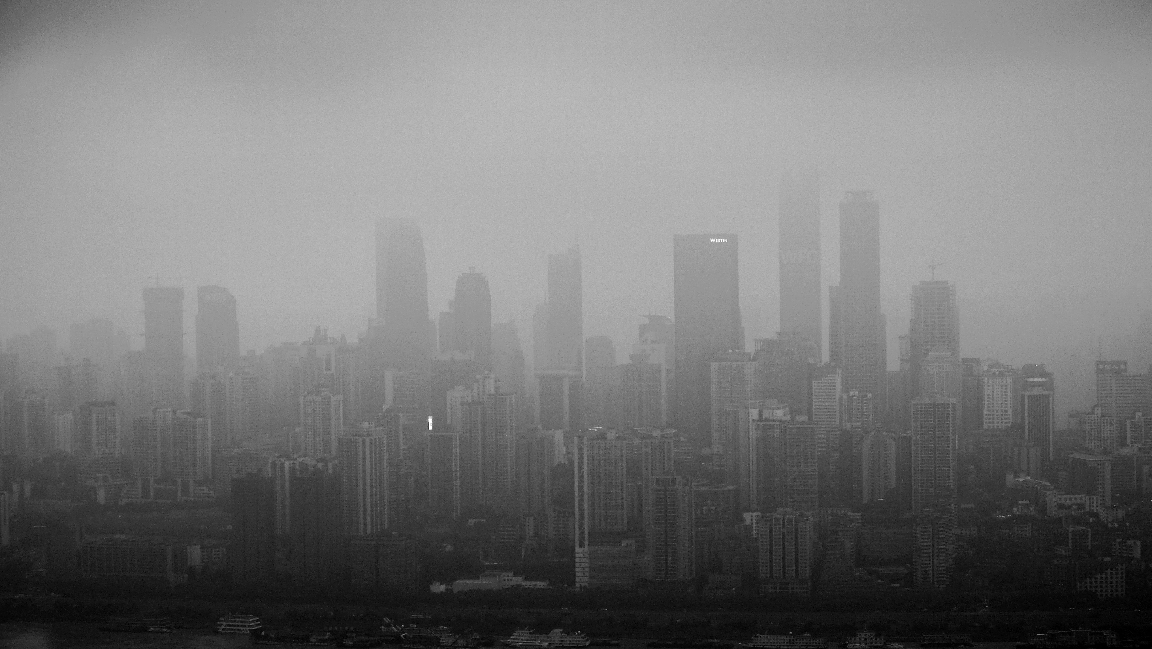 Chongqing in fog. Taken on 22 August 2014.